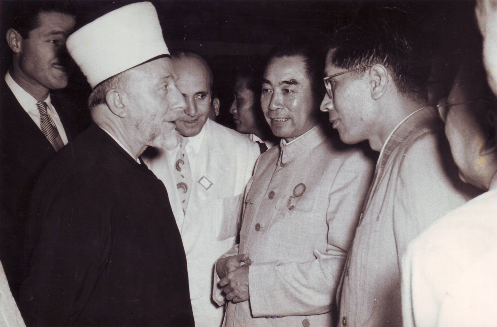 The Observer Delegation from Palestine, Mufti Mohammed Amin al-Husseini had a discussion with the Prime Minister of the People Republic of China, Zhou Enlai.